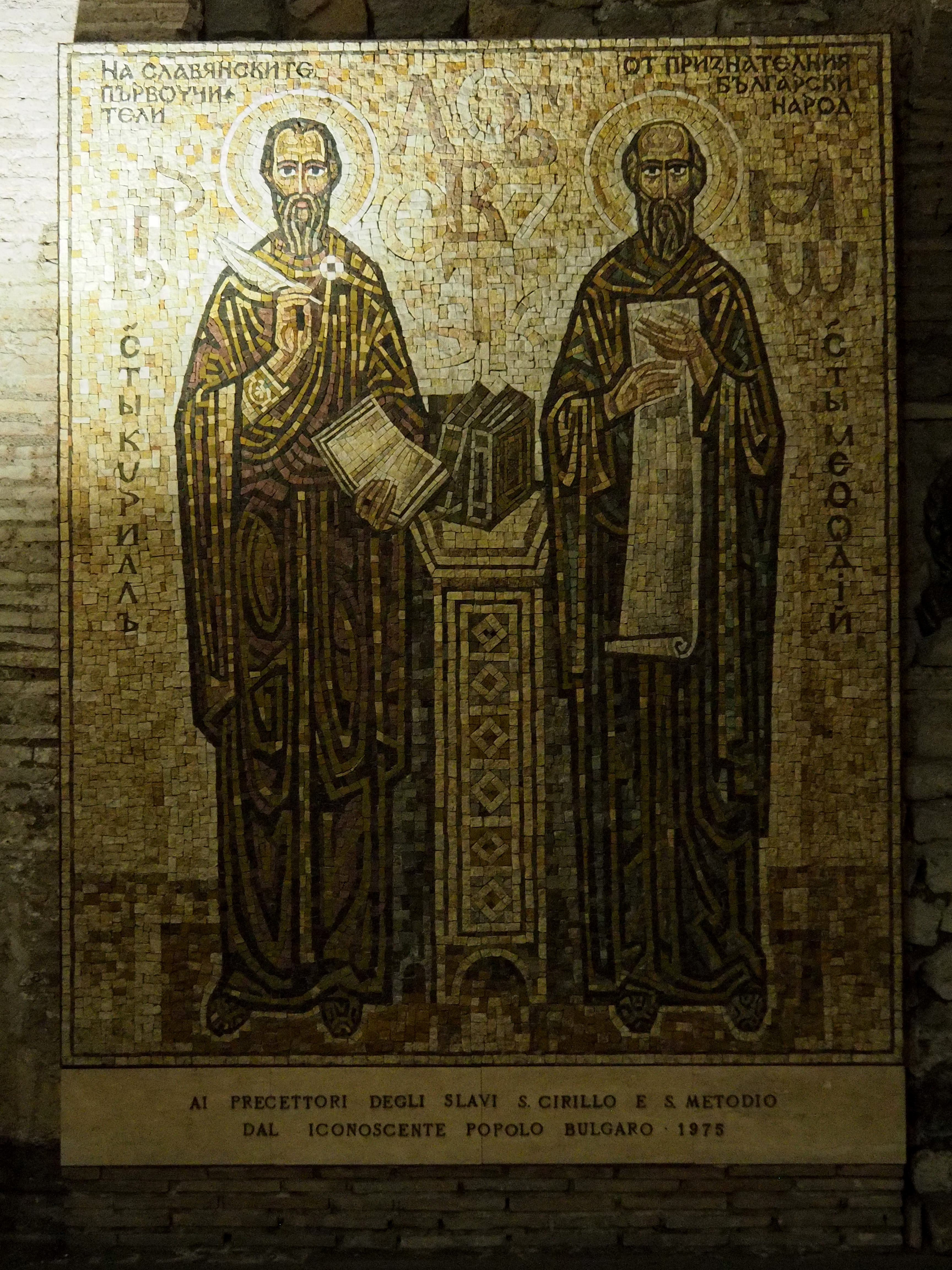 Mosaic of the Saints Cyril and Methodius at the tomb of Saint Cyril in the Basilica of San Clemente in Rome.